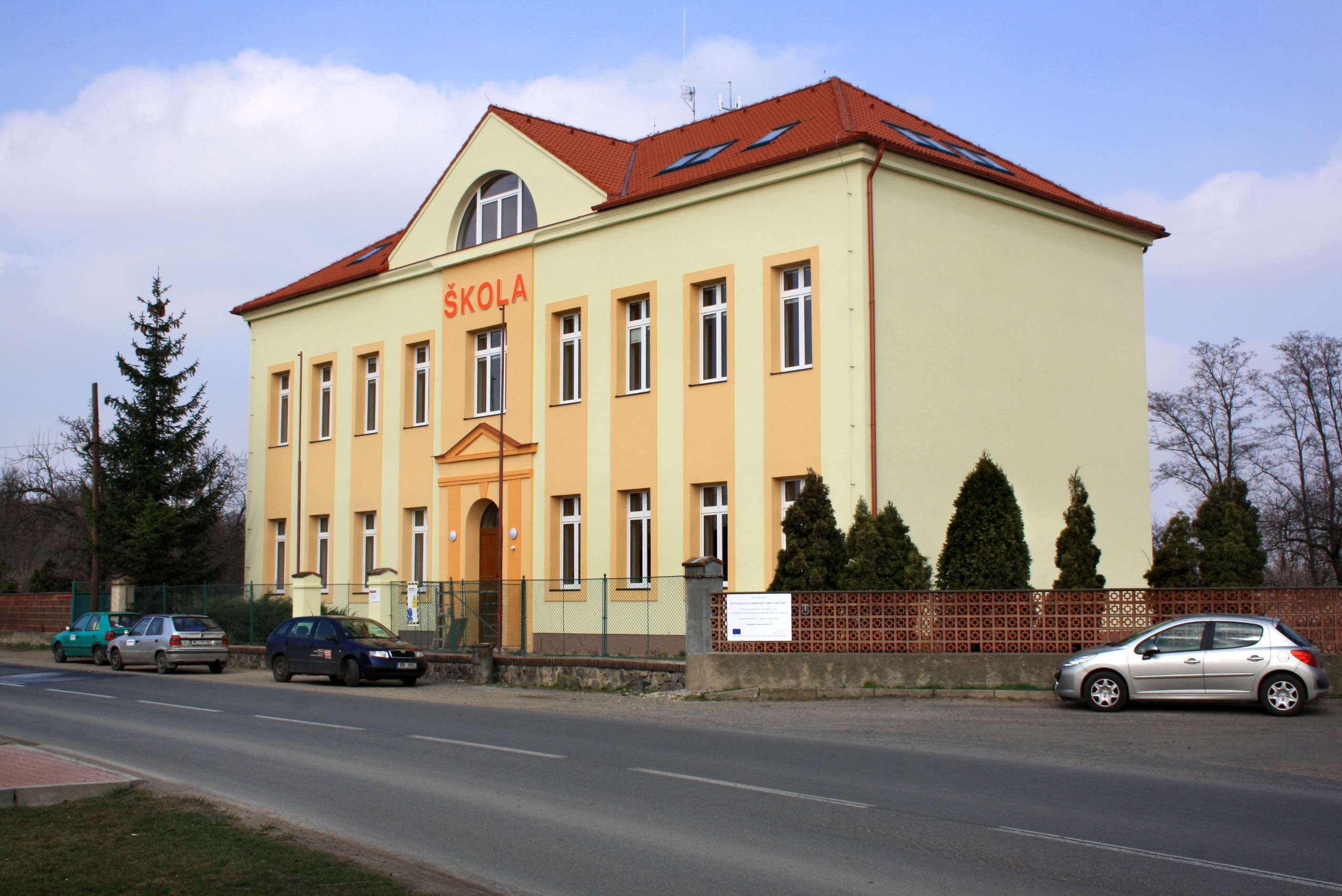 Old school in Chlumín, Czech Republic